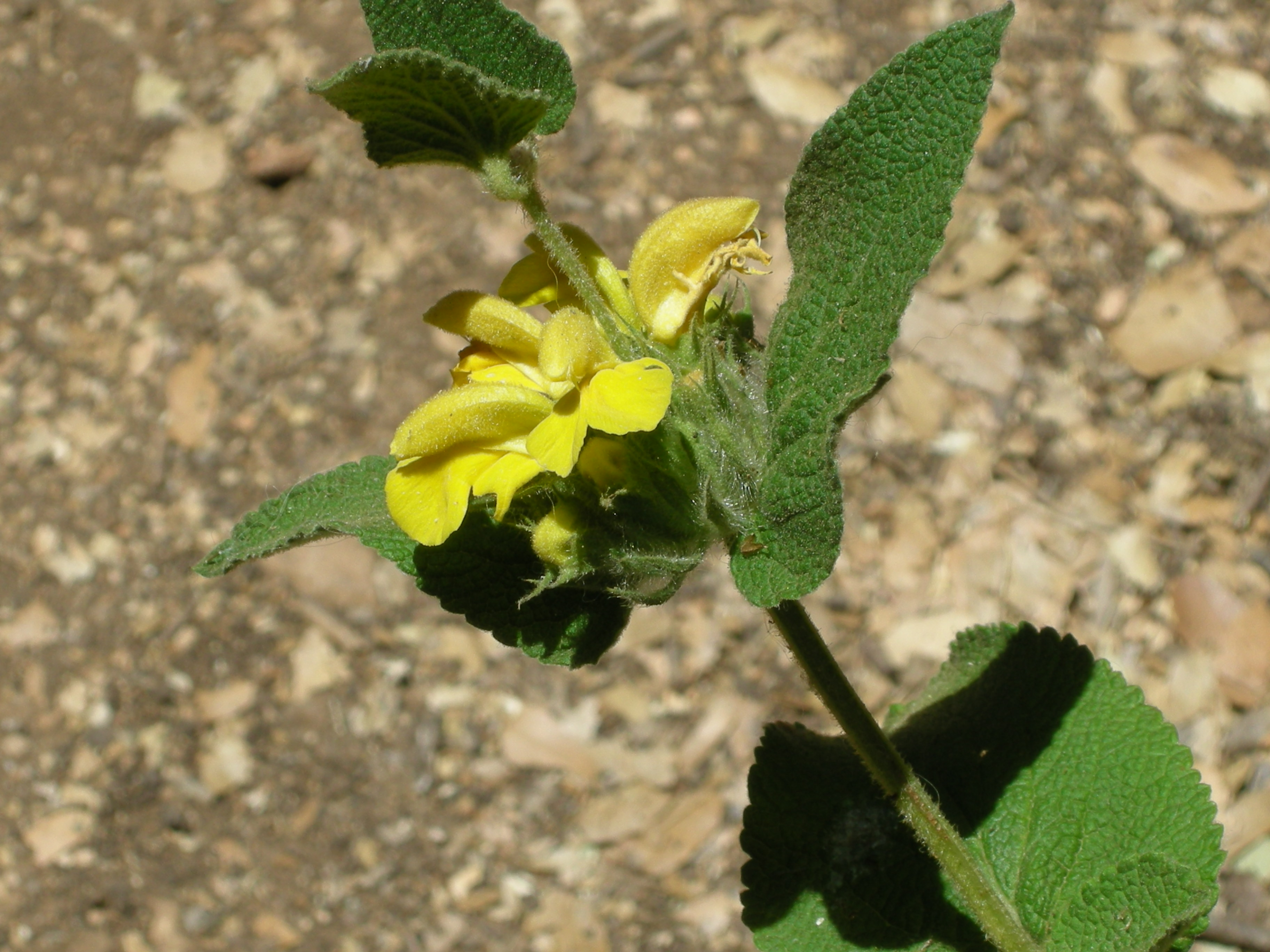 Mount Meron